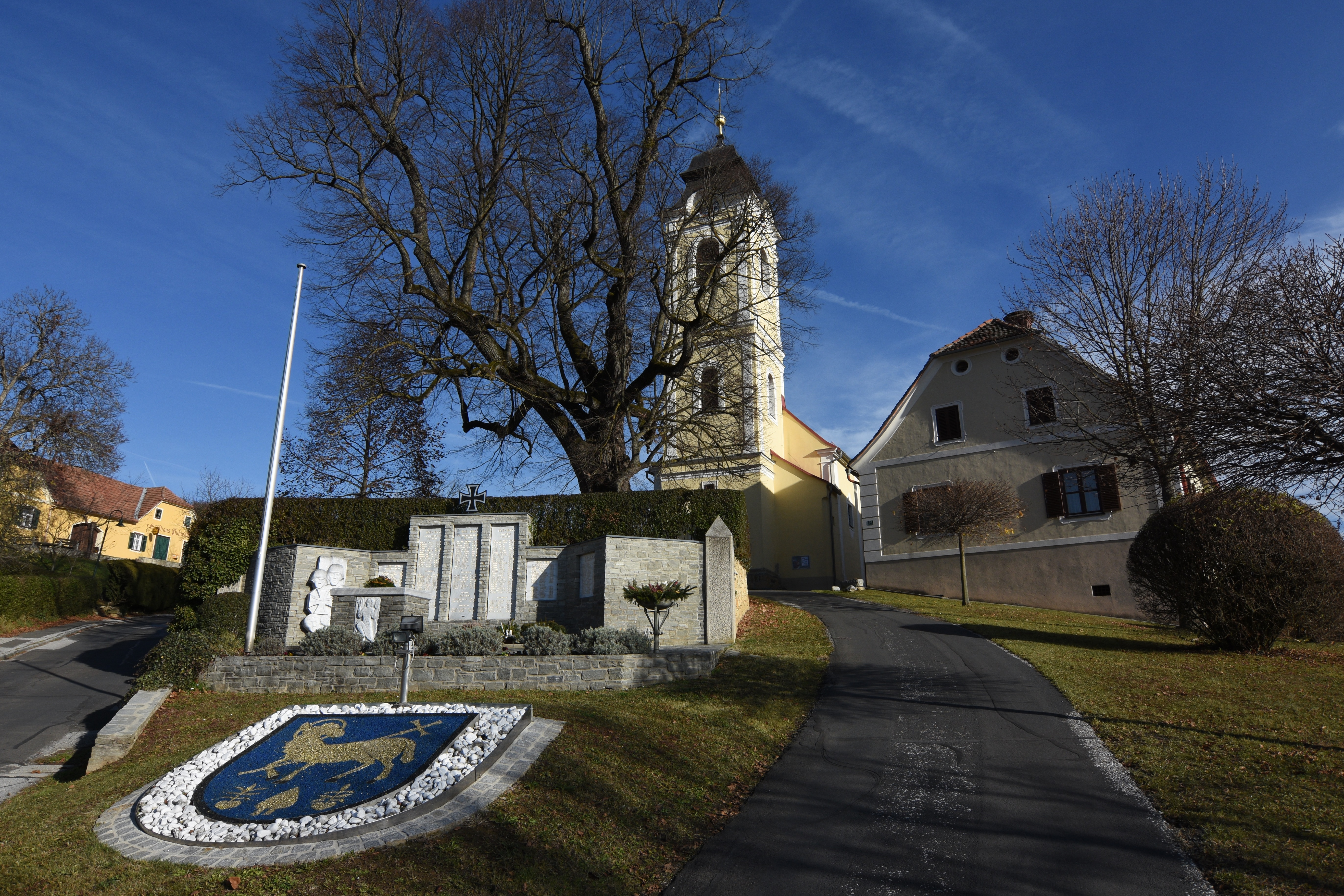 Sankt Johann in der Haide